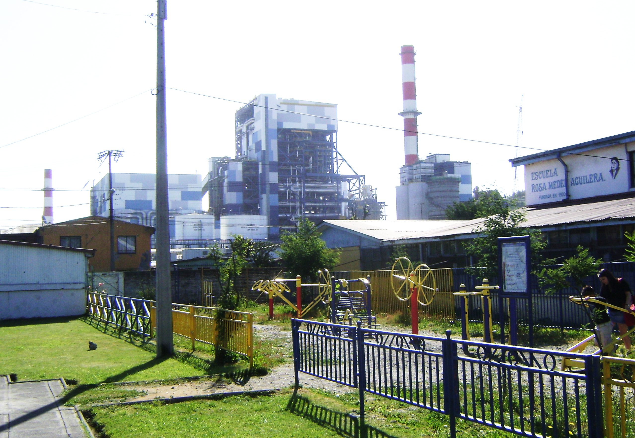 Coal-fired power plant Bocamina II